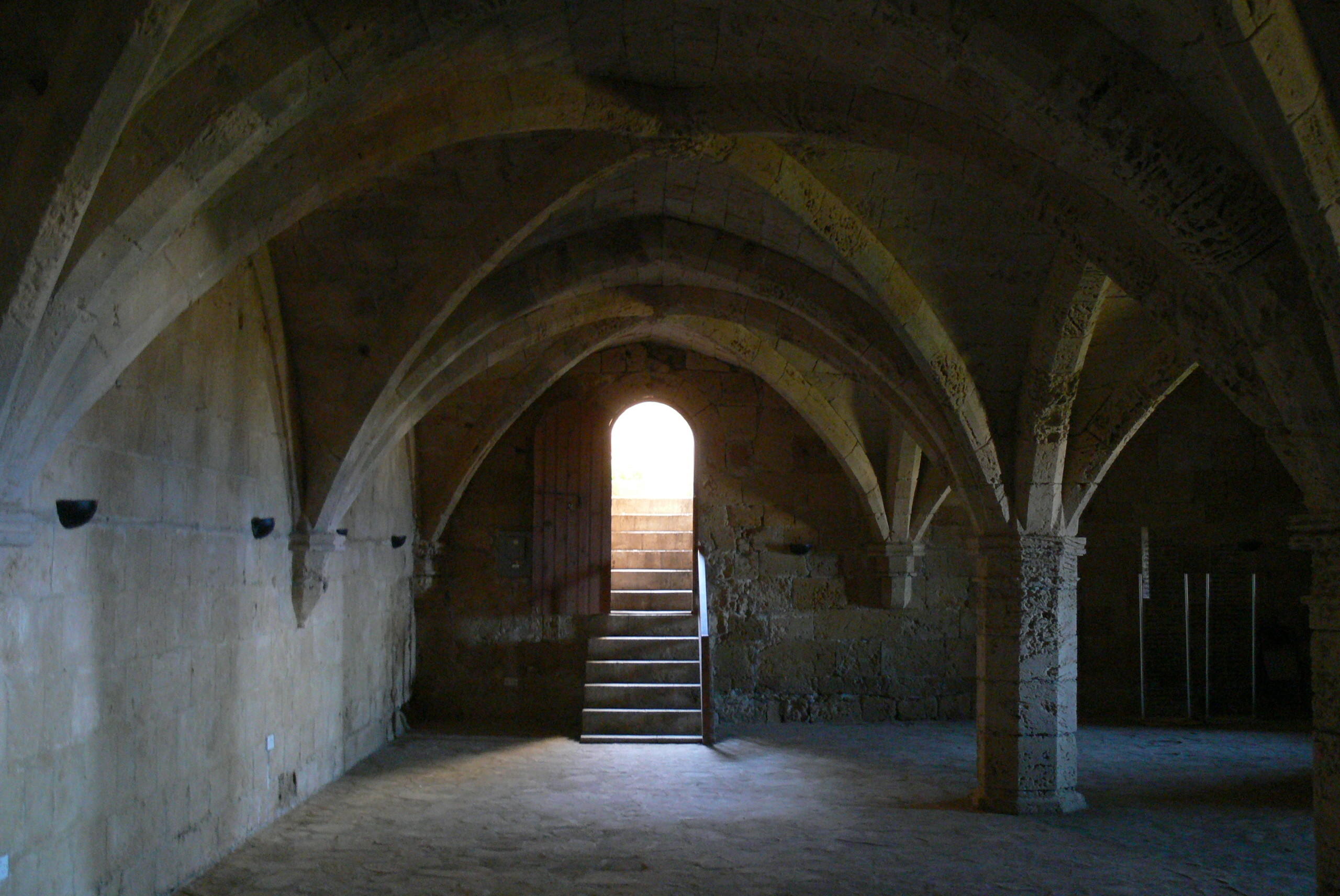 Bellapais monastery ( Northern Cyprus ). Cellarium ( 14th century ).